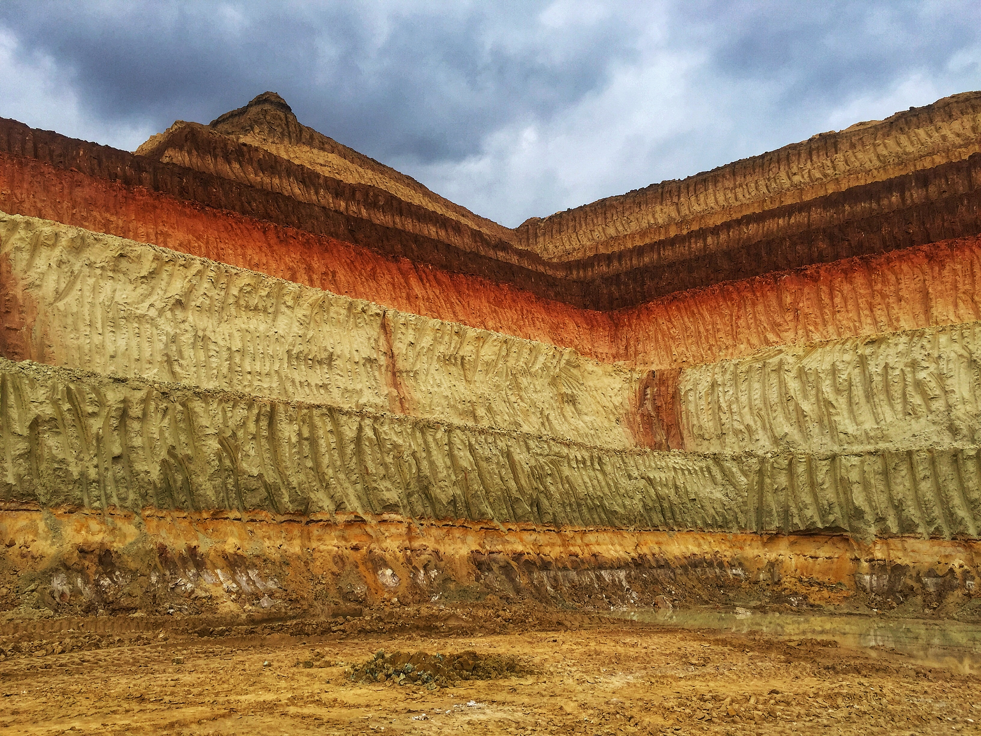 Open pit "Velta"